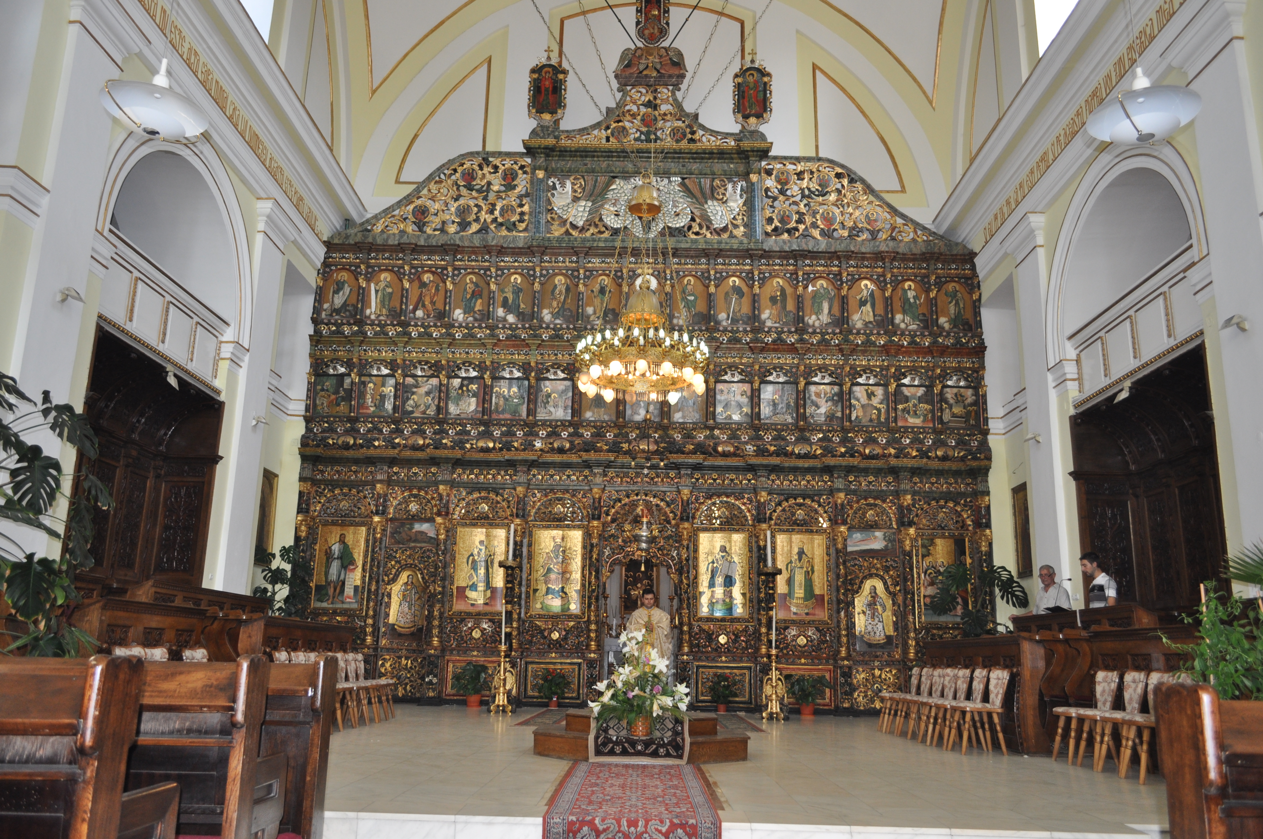 ”Holy Trinity” Greek-Catholic Archbishop's Cathedral in Blaj